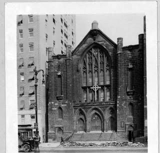 Baptist Tabernacle Church in Manhattan: 2nd Ave. - 10th St. 1928 - 1929